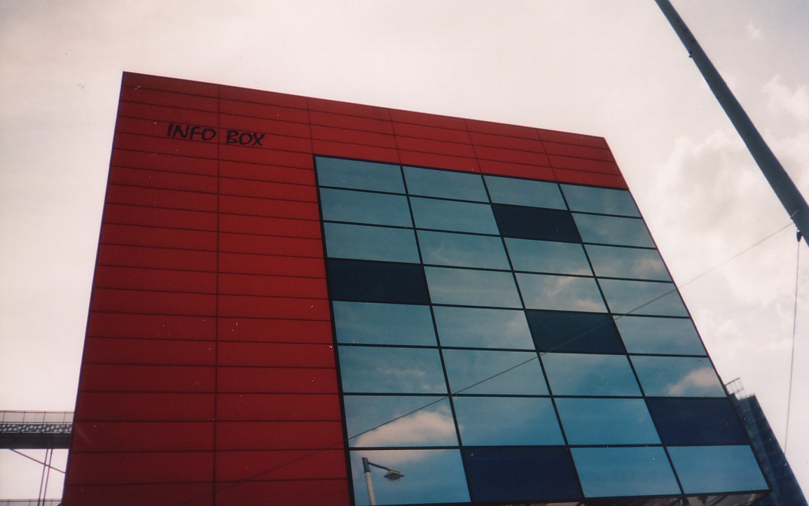 the Infobox at the Potsamer Platz, Berlin, Germany